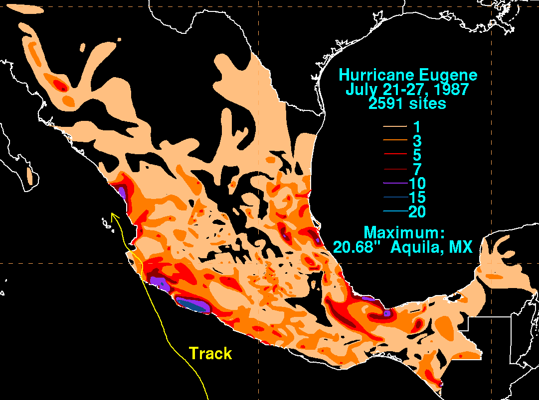 Rainfall produced by Hurricane Eugene during July 1987.